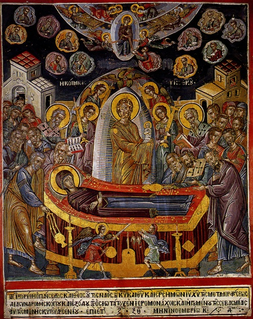 Rousanu